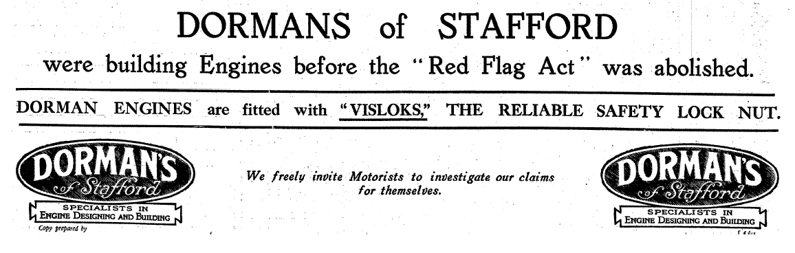 Commercial ad of the Dormans of Stafford engine company